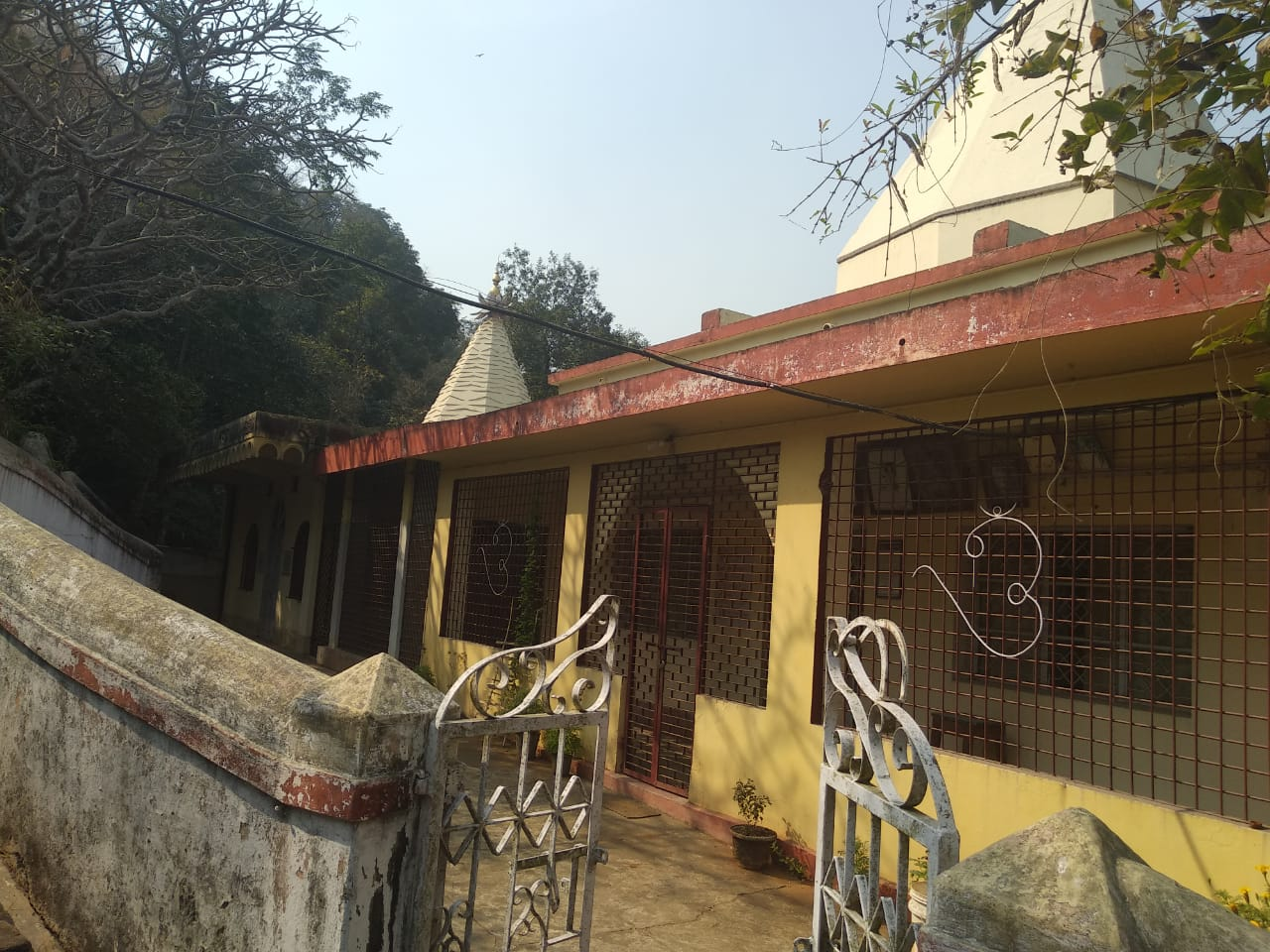 The Kalipur Ashram temple where is the site of Guru Bhumananda Paramahana's mahasamadhi.